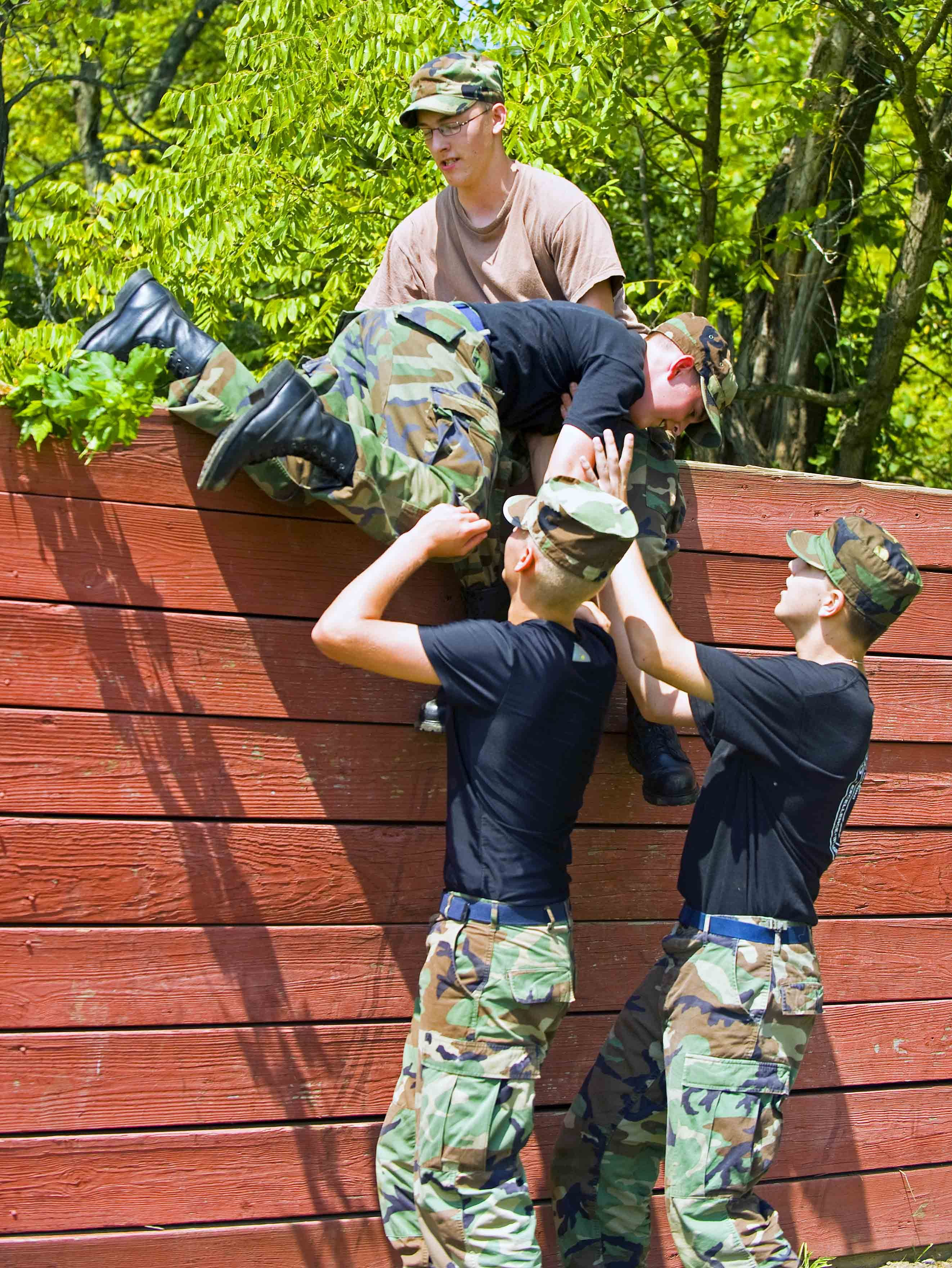 Civil Air Patrol Cadets work together to overcome a wall at the conditioning course at Camp Atterbury Joint Maneuver Training Center in central Indiana, Aug. 5, part of their annual encampment training. The cadets, ages 12 through 21, practice team building, physical fitness and character development while training with the Civil Air Patrol cadet program.